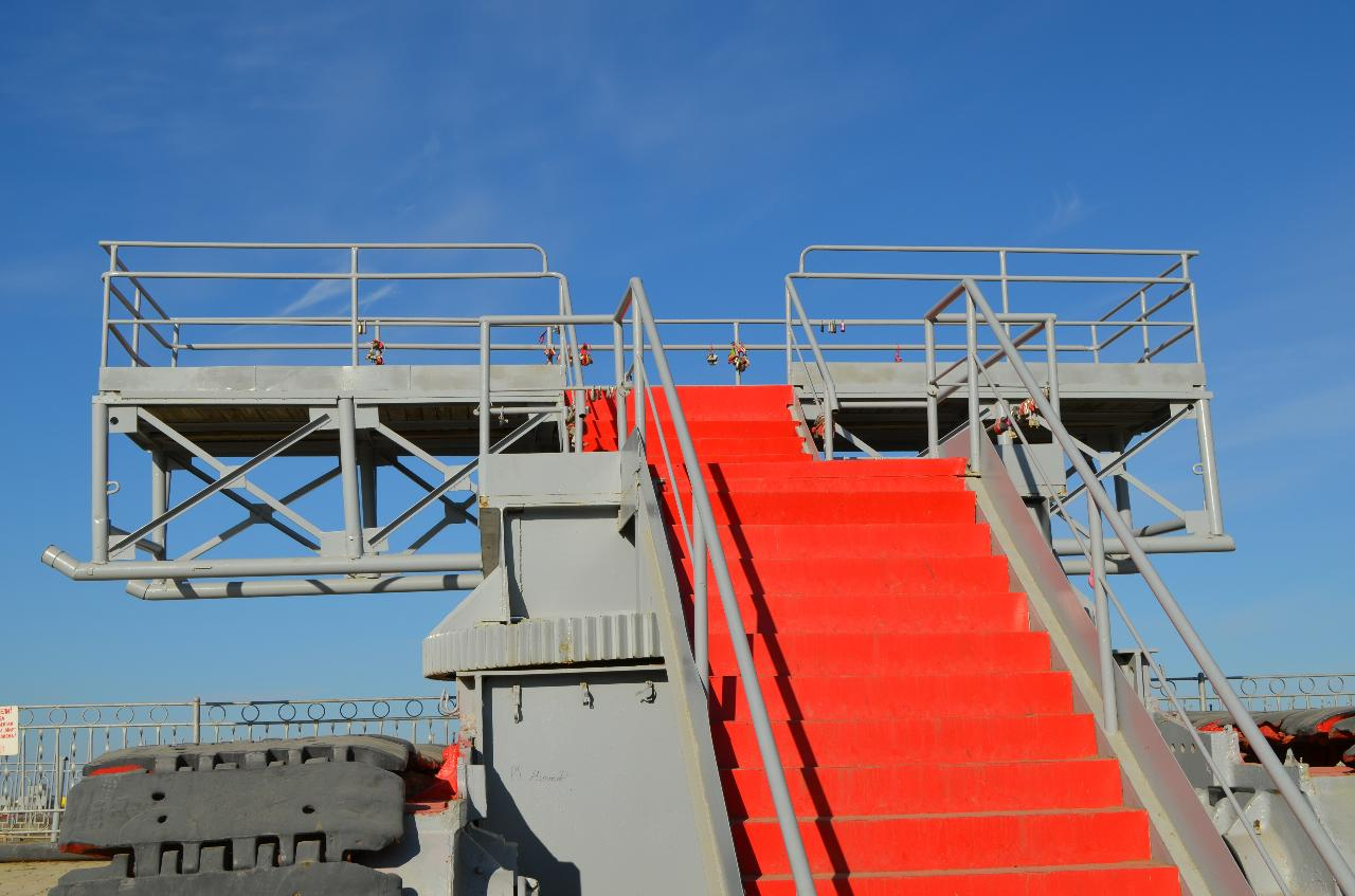 This photos are made during cruise Yakutsk — Lеnskiye Shchyoki, Lena Cheeks — Yakutsk (with arrival in Mirny), 05.09−17.09.2016